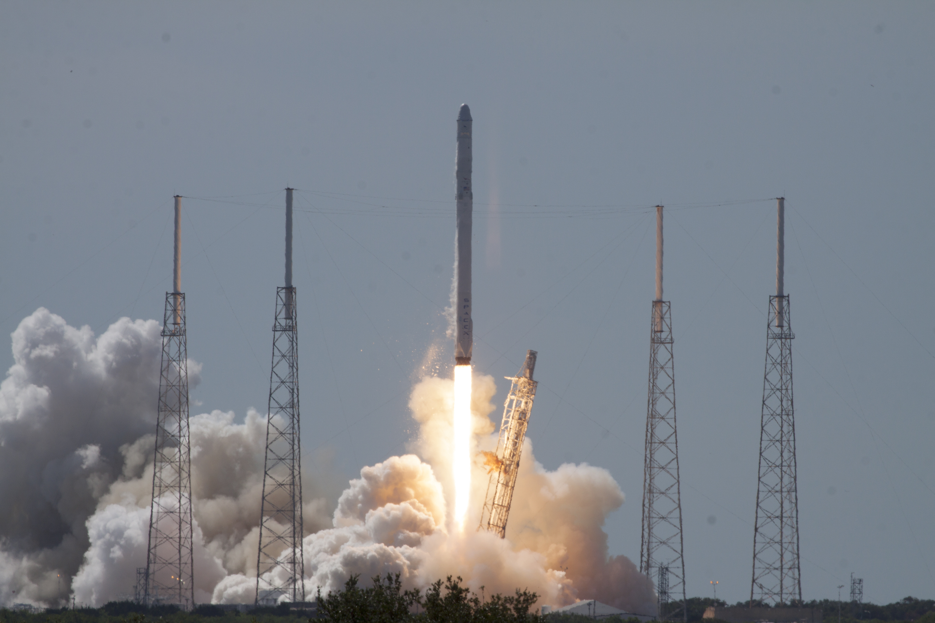 SpaceX CRS-7 lifted off from Space Launch Complex 40 at Cape Canaveral Air Force Station at 10:21 a.m. EDT. After liftoff, an anomaly occurred. SpaceX is evaluating the issue.